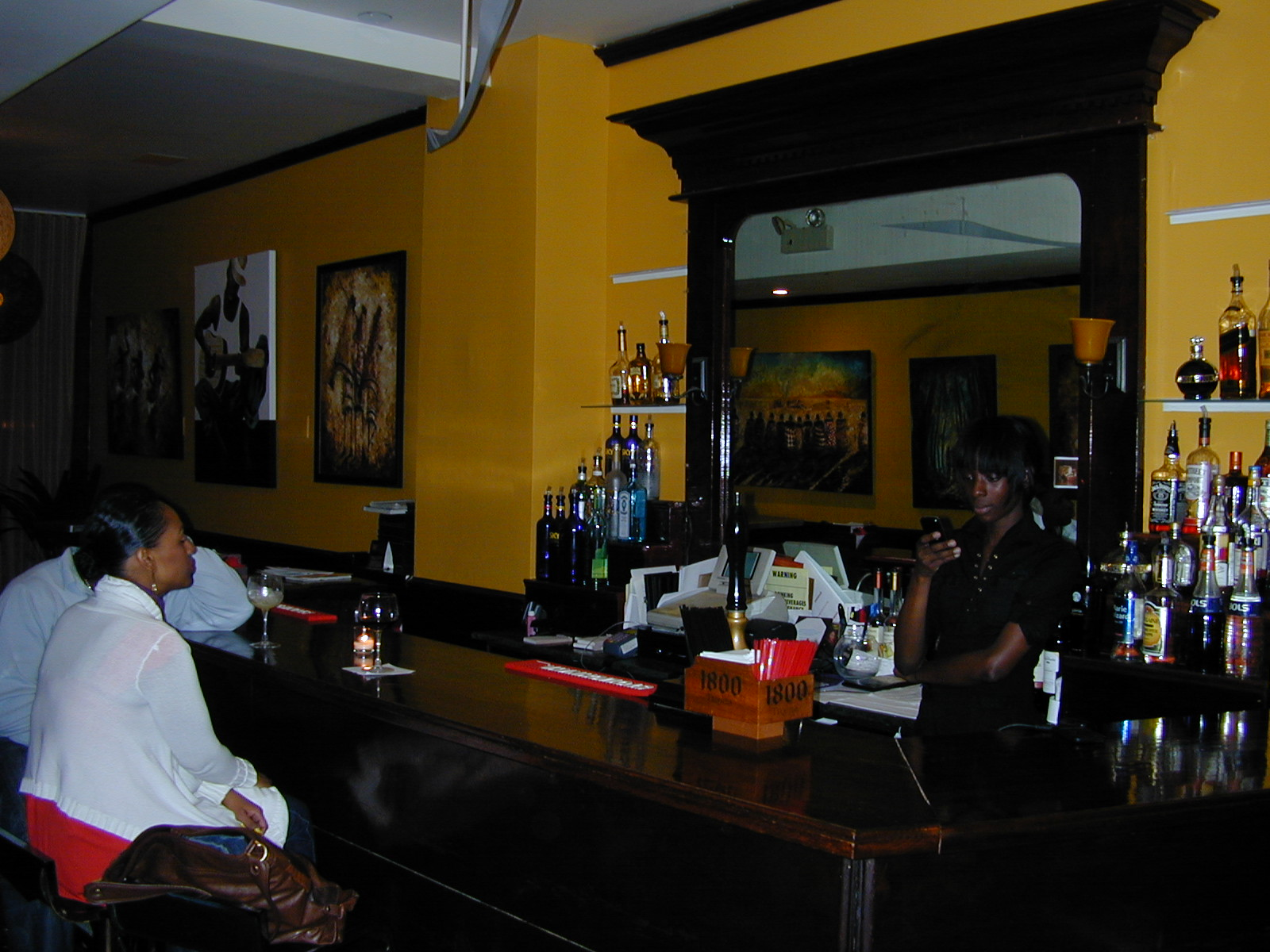 Zereoué's restaurant in New York City owned by Amos Zereoué